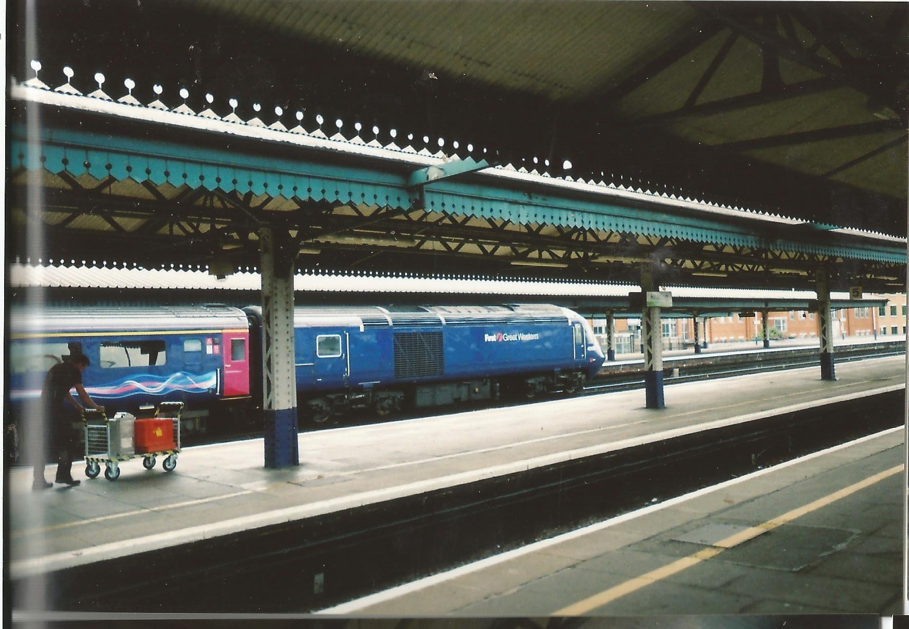 A train stops on it's way from Paddington to Bristol Temple Meads via Ealing Broadway, Slough, Maidenhead, Reading, Didcot, Swindon, Chippenham and Bath.